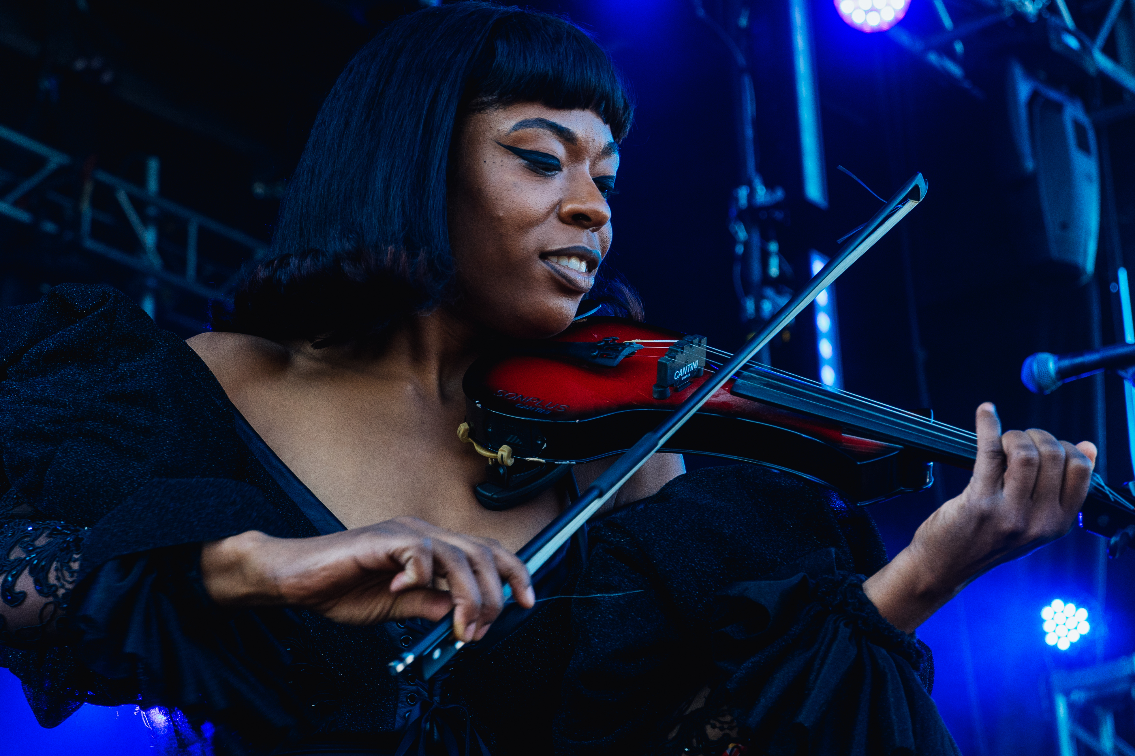 Sudan Archives wows the crowd at Treefort Music Fest 2019 with her violin playing & looping technique.